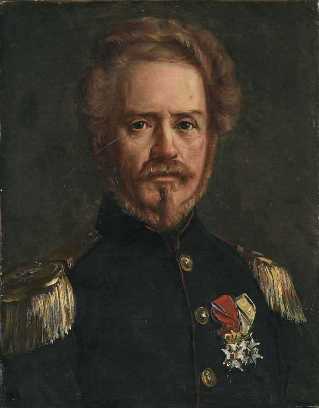 Portrait of Christian Wilhelm Bergh (1814-1873), first head of The Norwegian Public Roads Administration. On his chest the Order of St. Olav and the Order of the Polar Star.